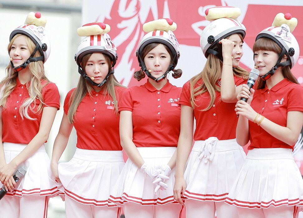 Crayon Pop at a hot dog eating contest